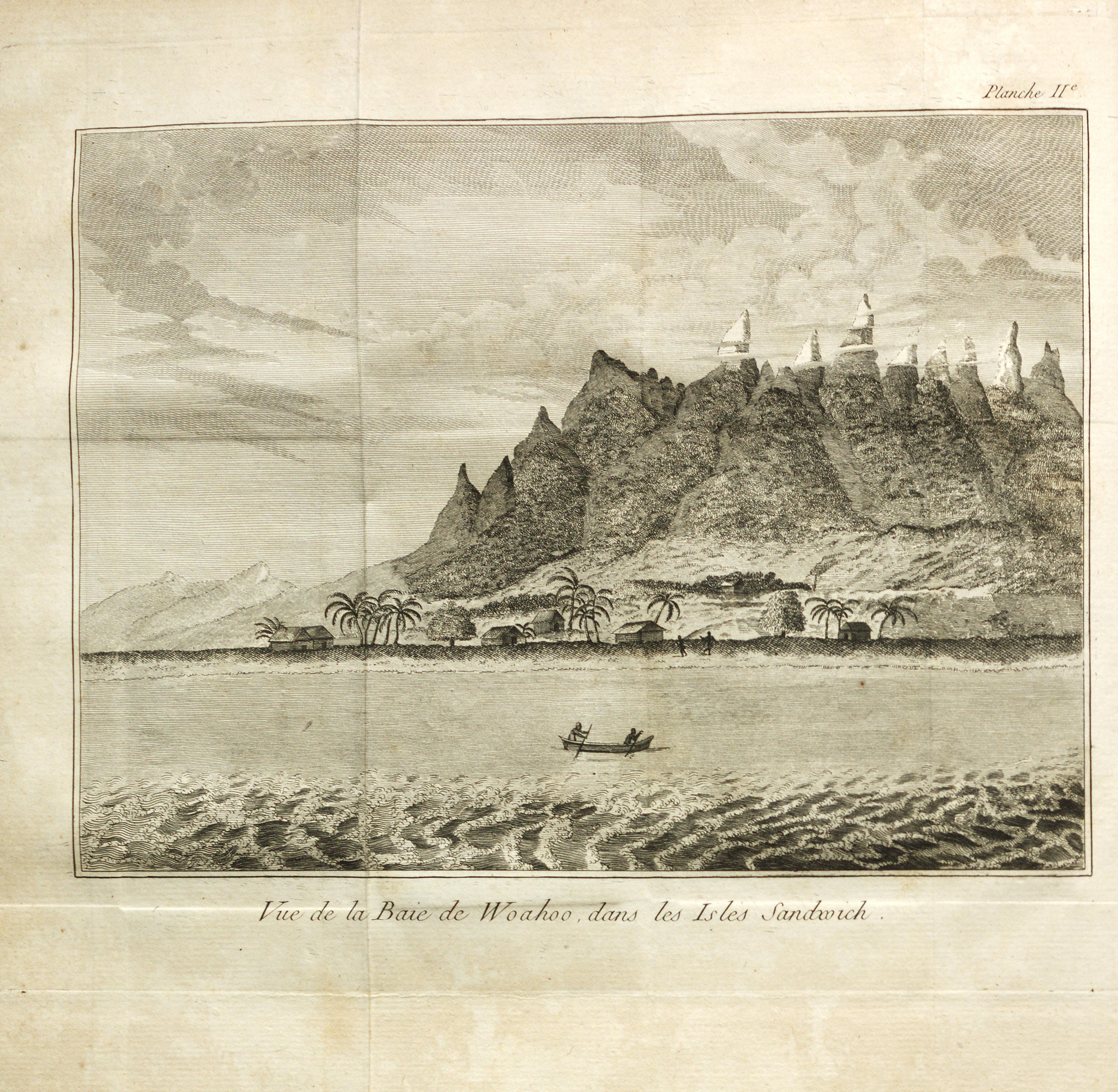 French translation of A voyage round the world, but more particularly to the north-west coast of America [microform] : performed in 1785, 1786, 1787, and 1788, in the King George and Queen Charlotte, Captains Portlock and Dixon ; dedicated, by permission, to Sir Joseph Banks, Bart.